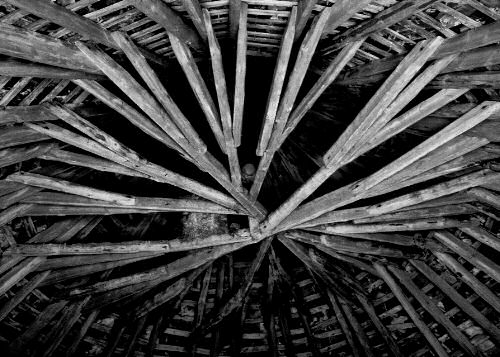 roof construction (made from driftwood) of the horse engine haouse at Holland Farm, Papay, Orkney, UK